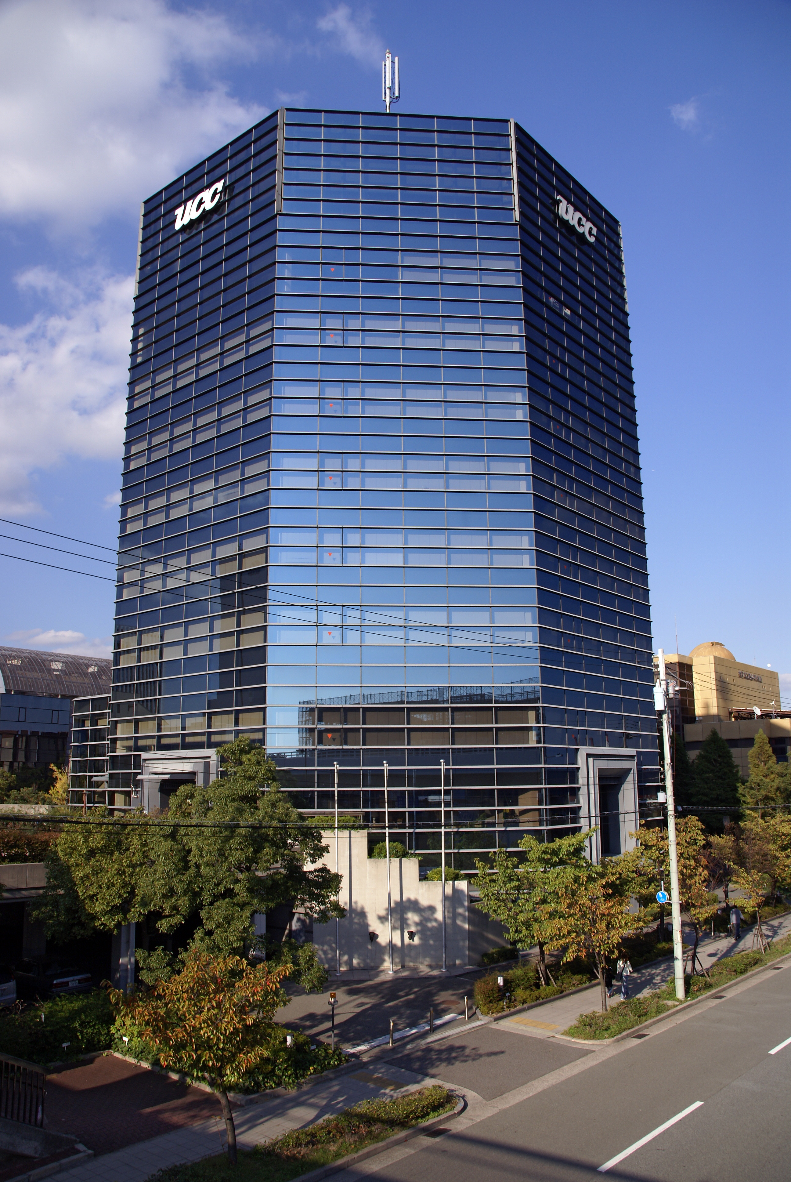 UCC Ueshima Coffee Co.,Ltd. headquarters in Kobe, Hyogo prefecture, Japan